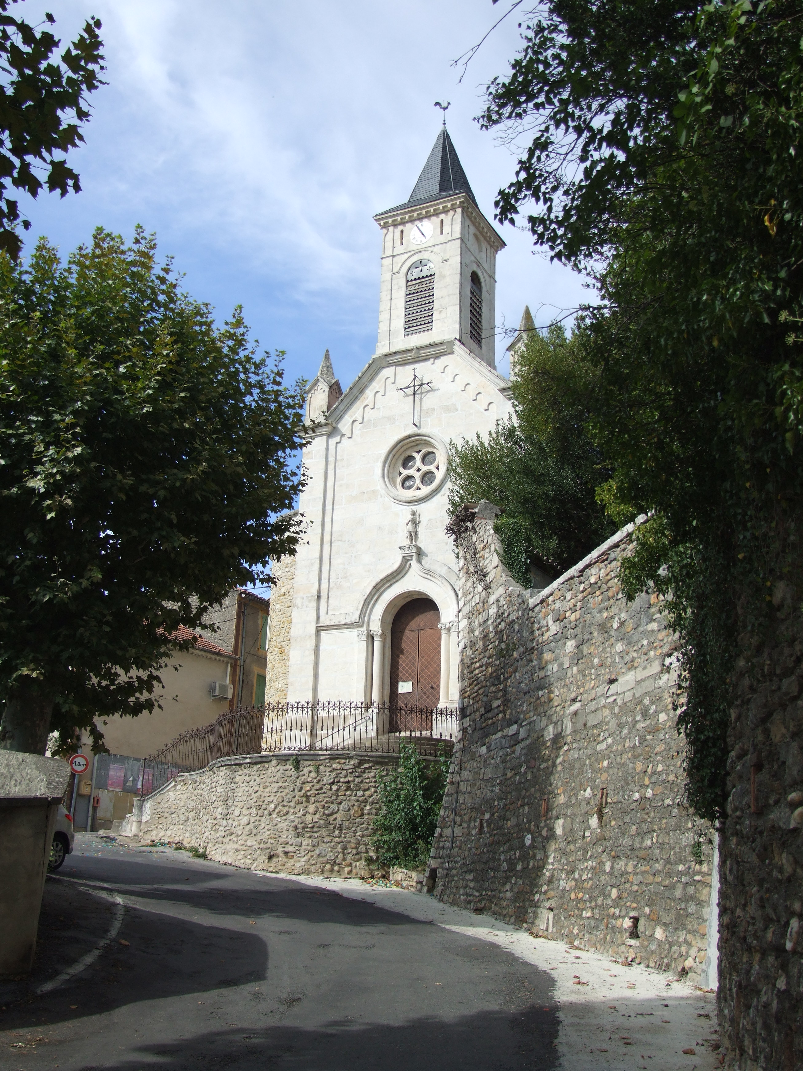 On the D51 betweenSt Amboix, Gard and Barjac, Gard in the commune of Saint-Victor-de-Malcap the Pont de Cèze at Berguerolle is the launching point for a canoe hire company.